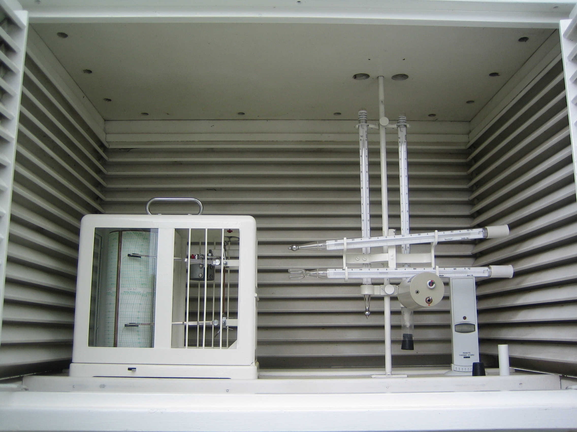 German version of Stevenson screen with psychrometer, max/min-thermometer and thermohygrograph